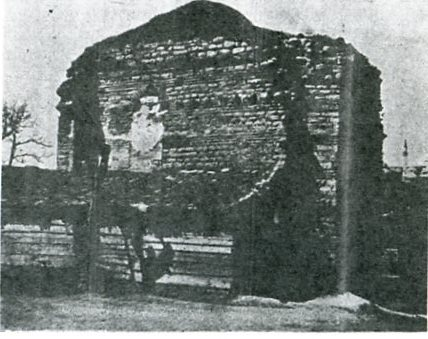 The Bogdan saray in Istanbul in 1908